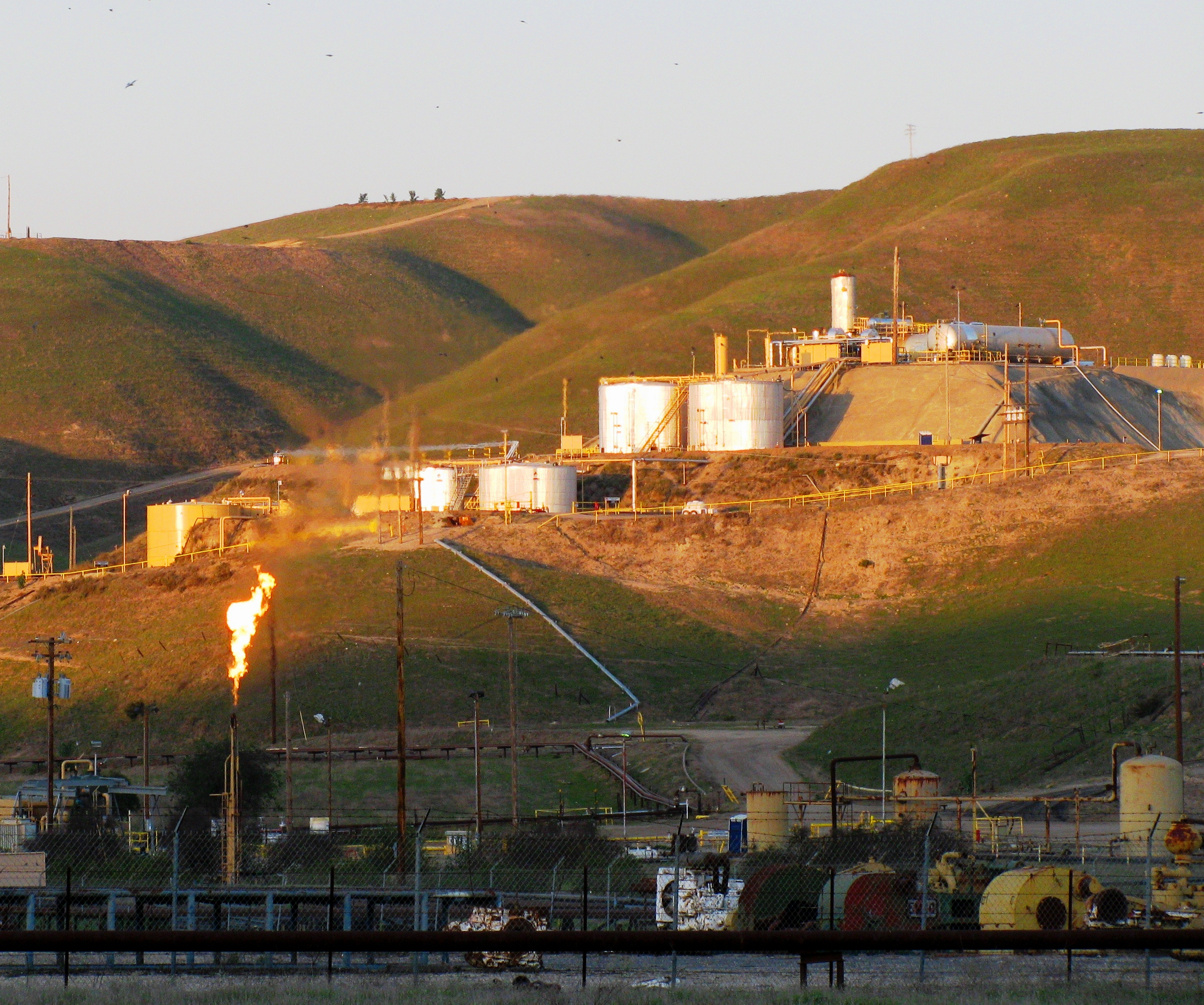 Tank battery, laydown area, pipelines, pipe racks, etc. in Cat Canyon Oil Field, Santa Barbara County, California. Photo by self, 3 Dec 2011. Summary Tank battery, laydown area, pipelines, pipe racks, etc. in Cat Canyon Oil Field, Santa Barbara County, California. Photo by self, 3 Dec 2011.